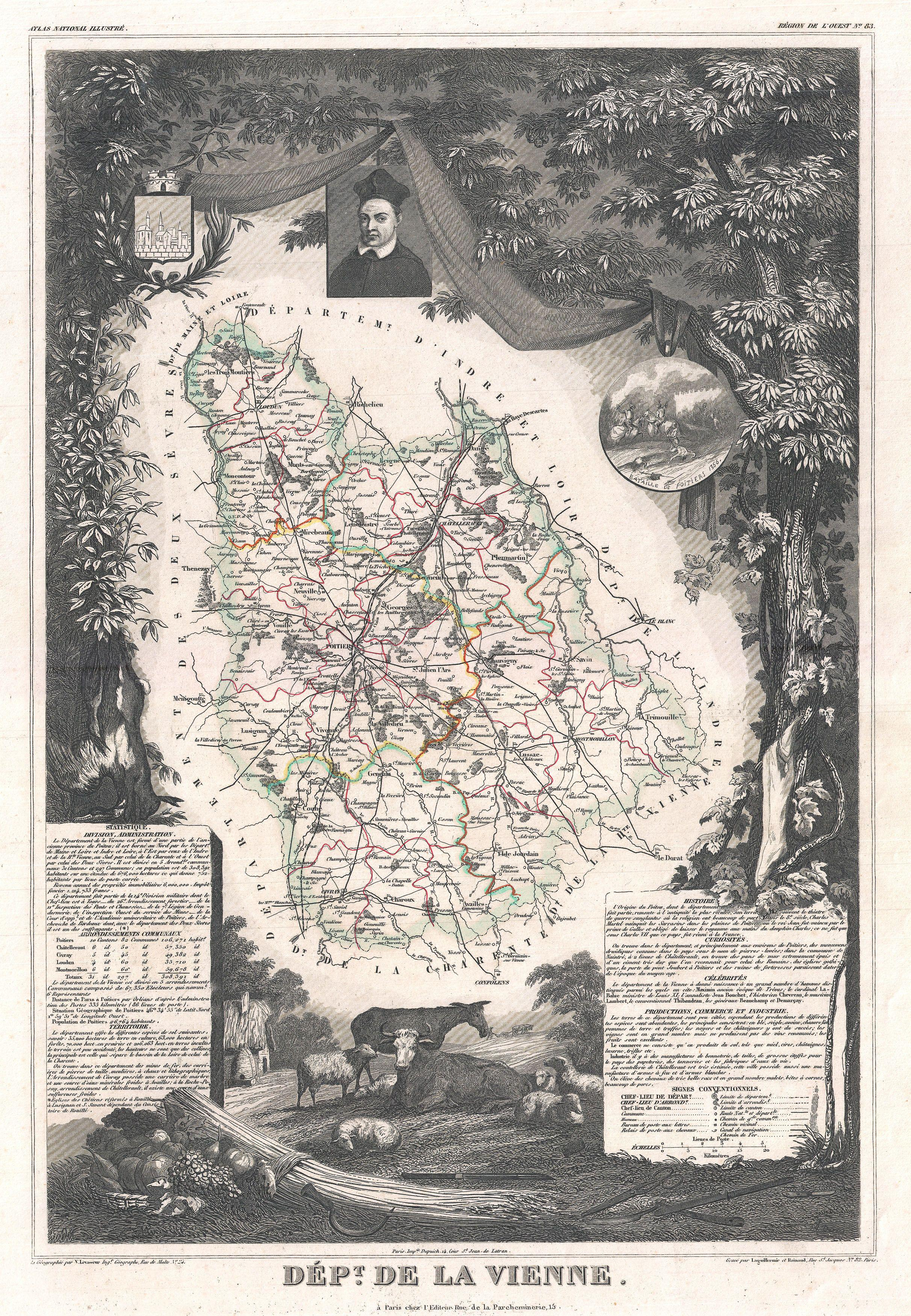 This is a fascinating 1852 map of the French department of Vienne, France. Vienne is renowned for its production of chevre, or goat cheese, and is a vital industry in this department. The map proper is surrounded by elaborate decorative engravings designed to illustrate both the natural beauty and trade richness of the land. There is a short textual history of the regions depicted on both the left and right sides of the map. Published by V. Levasseur in the 1852 edition of his Atlas National de la France Illustree.